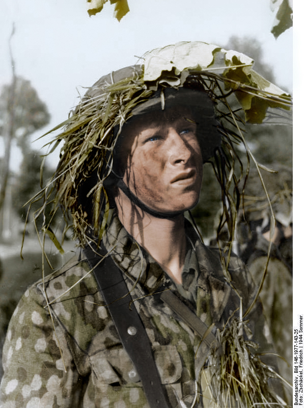 This is a retouched picture, which means that it has been digitally altered from its original version. Modifications: recolored. The original can be viewed here: Bundesarchiv Bild 146-1977-143-25, Frankreich, SS-Grenadier.jpg. Modifications made by Ruffneck88. Frankreich, SS-Grenadier 15px|link= Photographer Zschäckel, FriedrichArchive description Description provided by the archive when the original description is incomplete or wrong. You can help by reporting errors and typos at Commons:Bundesarchiv/Error reports. Frankreich, Normandie.- Porträt eines Soldaten der SS-Grenadier-Panzerdivision, "Hitler Jugend" mit getarntem StahlhelmTitle Frankreich, SS-Grenadier Original caption Invasionsfront Das Gesicht des Grenadiers der Panzerdivision "Hitler-Jugend" an der normannischen Invasionsfront. Foto: SS-Kriegsberichter ZschäkelDepicted place FranceDate 21 June 1944date QS:P,+1944-06-21T00:00:00Z/11Collection German Federal Archives Native nameDas BundesarchivLocationKoblenz (headquarters)Coordinates50° 20′ 32.71″ N, 7° 34′ 21.22″ E Established1946Web page control : Q685753 VIAF: 137346469 ISNI: 0000 0004 0555 2728 LCCN: n92025526 NLA: 36455393 Open Library: OL55798A WorldCat institution QS:P195,Q685753Current location Sammlung von Repro-Negativen (Bild 146)Accession number Bild 146-1977-143-25 Source This image was provided to Wikimedia Commons by the German Federal Archive (Deutsches Bundesarchiv) as part of a cooperation project. The German Federal Archive guarantees an authentic representation only using the originals (negative and/or positive), resp. the digitalization of the originals as provided by the Digital Image Archive. Other versions This file has an extracted image: File:Eichenlaubmuster (detail of uniform).jpg. Invasionsfront Das Gesicht des Grenadiers der Panzerdivision "Hitler-Jugend" an der normannischen Invasionsfront. Foto: SS-Kriegsberichter Zschäkel